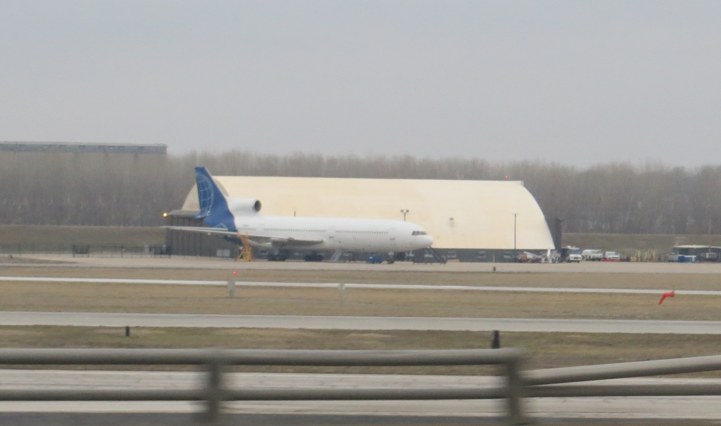 Lockheed L-1011 TriStar, N700TS at National Airline History Museum, Kansas City Downtown Airport in Kansas City, Missouri, USA. Cropped version of File:Lockheed L-1011 TriStar N700TS, National Airline History Museum, Kansas 2013-03-17.JPG.